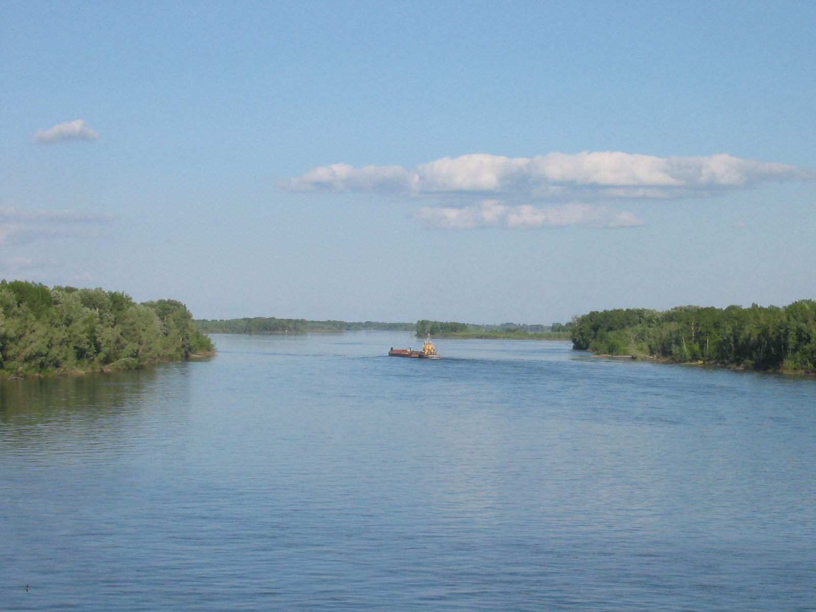 Ob River (Russia).